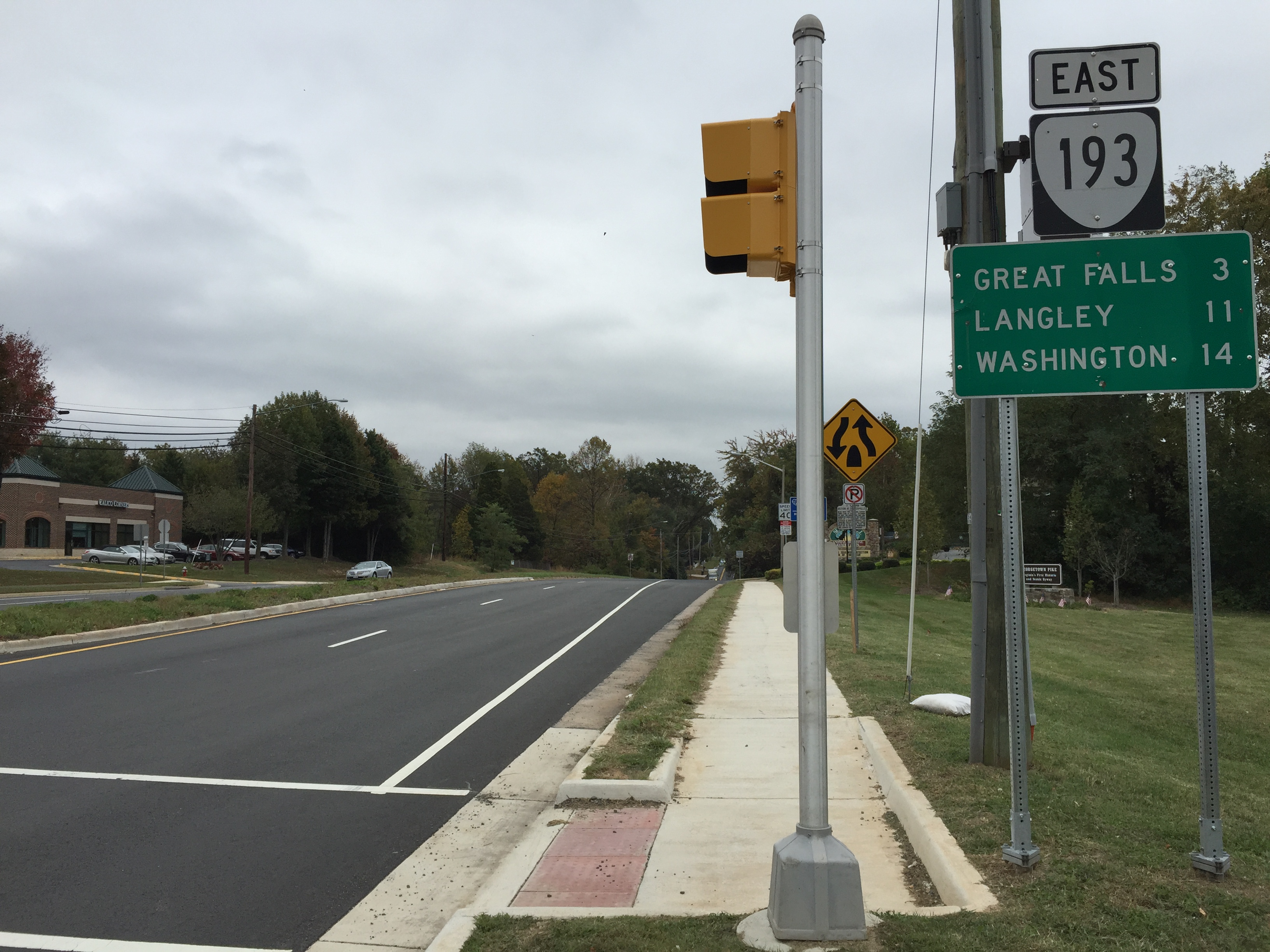 View east along Virginia State Route 193 (Georgetown Pike) at Seneca Road (Virginia State Secondary Route 602) in Great Falls, Fairfax County, Virginia